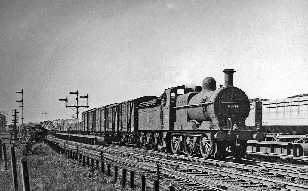 Parallel Up freight trains on the Midland main lines at Wath Road Junction. View northward, to the signalbox - just visible, then left towards Cudworth, Normanton and Leeds, right towards Pontefract and York. Here ex- MIdland 3F 0-6-0 No. 43714 is bringing up a Class J goods on the Up Fast line while a train of high-capacity coke wagons is running parallel on the Up Slow. Underneath ran the ex-Great Central main line between Mexborough and Wath Yard